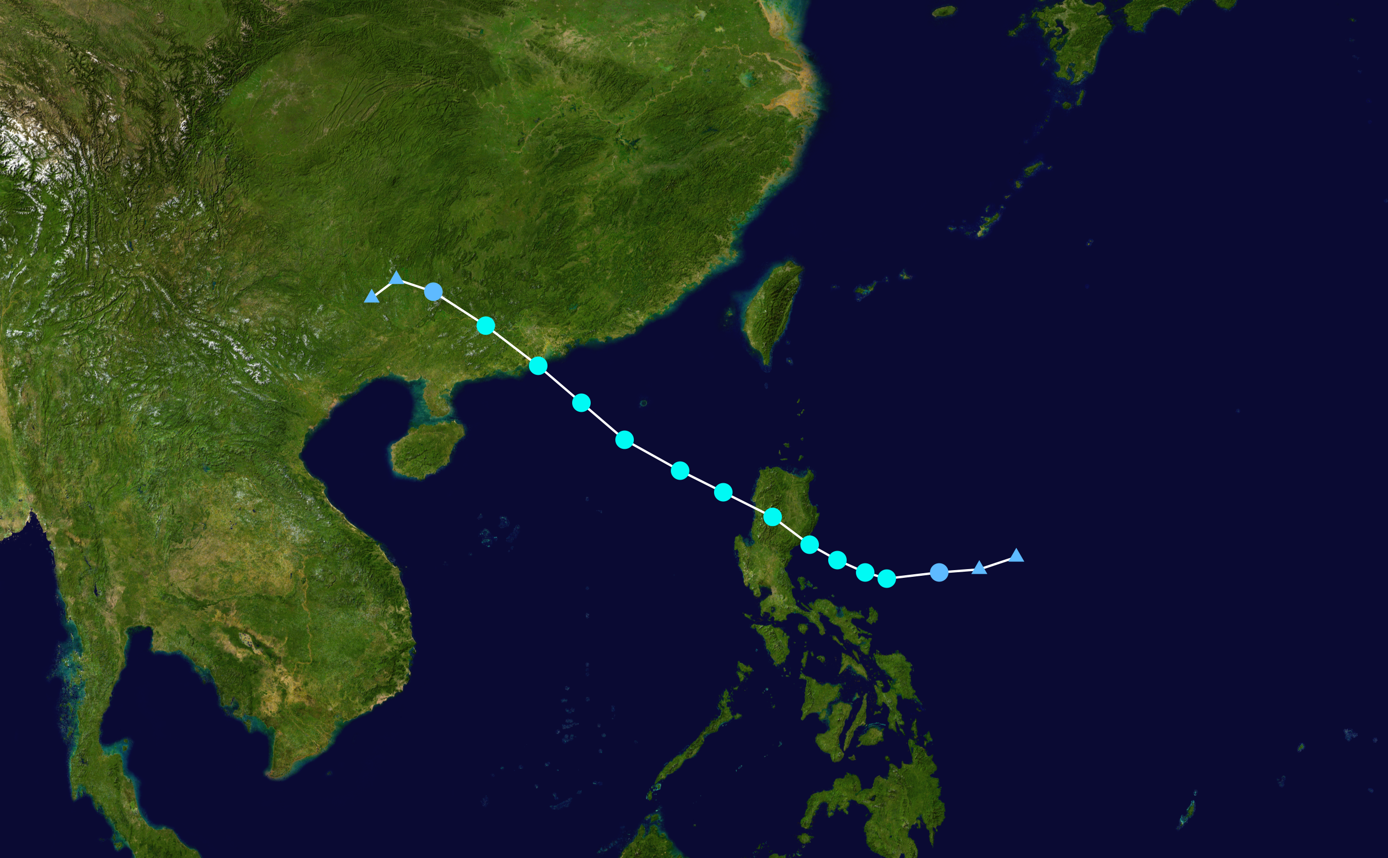 Track map of Severe Tropical Storm Pakhar of the 2017 Pacific typhoon season. The points show the location of the storm at 6-hour intervals. The colour represents the storm's maximum sustained wind speeds as classified in the Saffir–Simpson scale (see below), and the shape of the data points represent the nature of the storm, according to the legend below. Saffir–Simpson scale Tropical depression≤38 mph≤62 km/h Category 3111–129 mph178–208 km/h Tropical storm39–73 mph63–118 km/h Category 4130–156 mph209–251 km/h Category 174–95 mph119–153 km/h Category 5≥157 mph≥252 km/h Category 296–110 mph154–177 km/h Unknown Storm type Tropical cyclone Subtropical cyclone Extratropical cyclone / Remnant low / Tropical disturbance / Monsoon depression